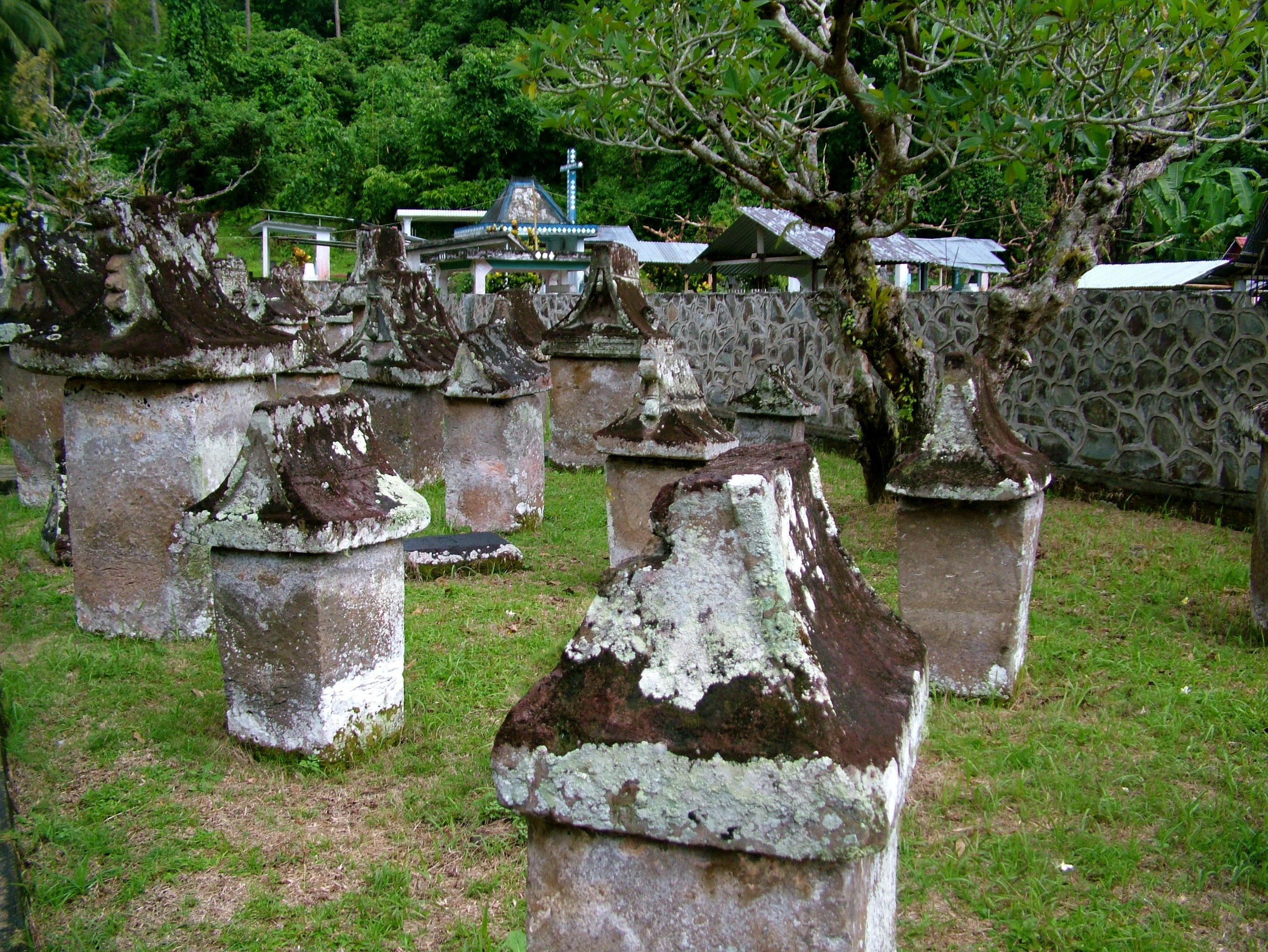 Waruga tomb of Minahasa ancestors